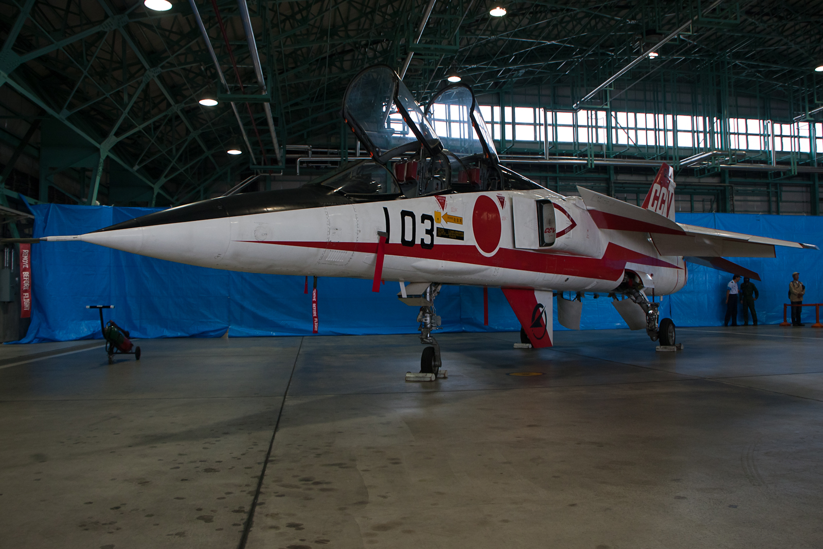 Aircraft: Mitsubishi Heavy Industries T-2CCV(Control Configured Vehicle S/N:29-5103) Squadron: JSDF Technical Research and Development Institute(TRDI) / Air Development Test Wing (自衛隊 技術研究本部 飛行開発実験団） Base: JASDF Gifu AB(RJNG), Gifu-ken, Japan 24/10/2010 JASDF Gifu AB, Japan